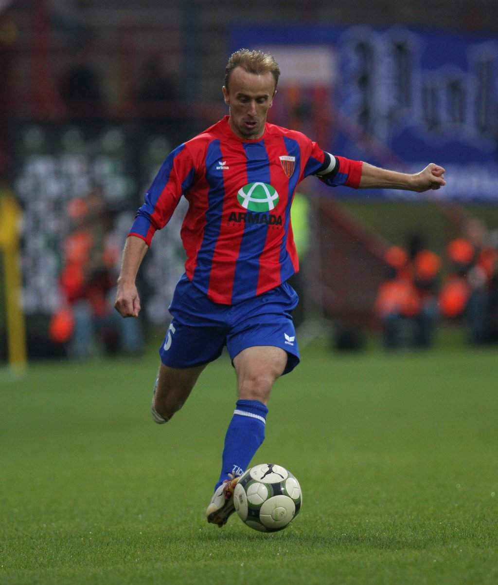 Jacek Trzeciak, the capitain of Polonia Bytom football team.